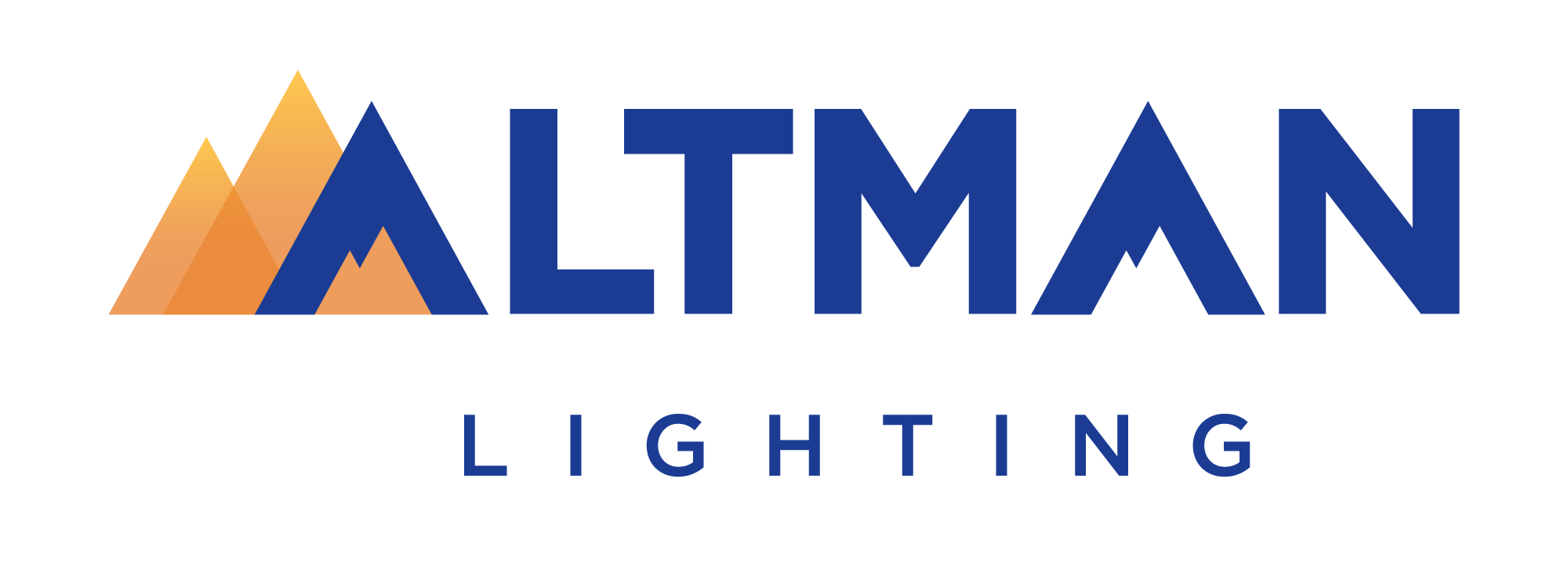 Altman Lighting Logo